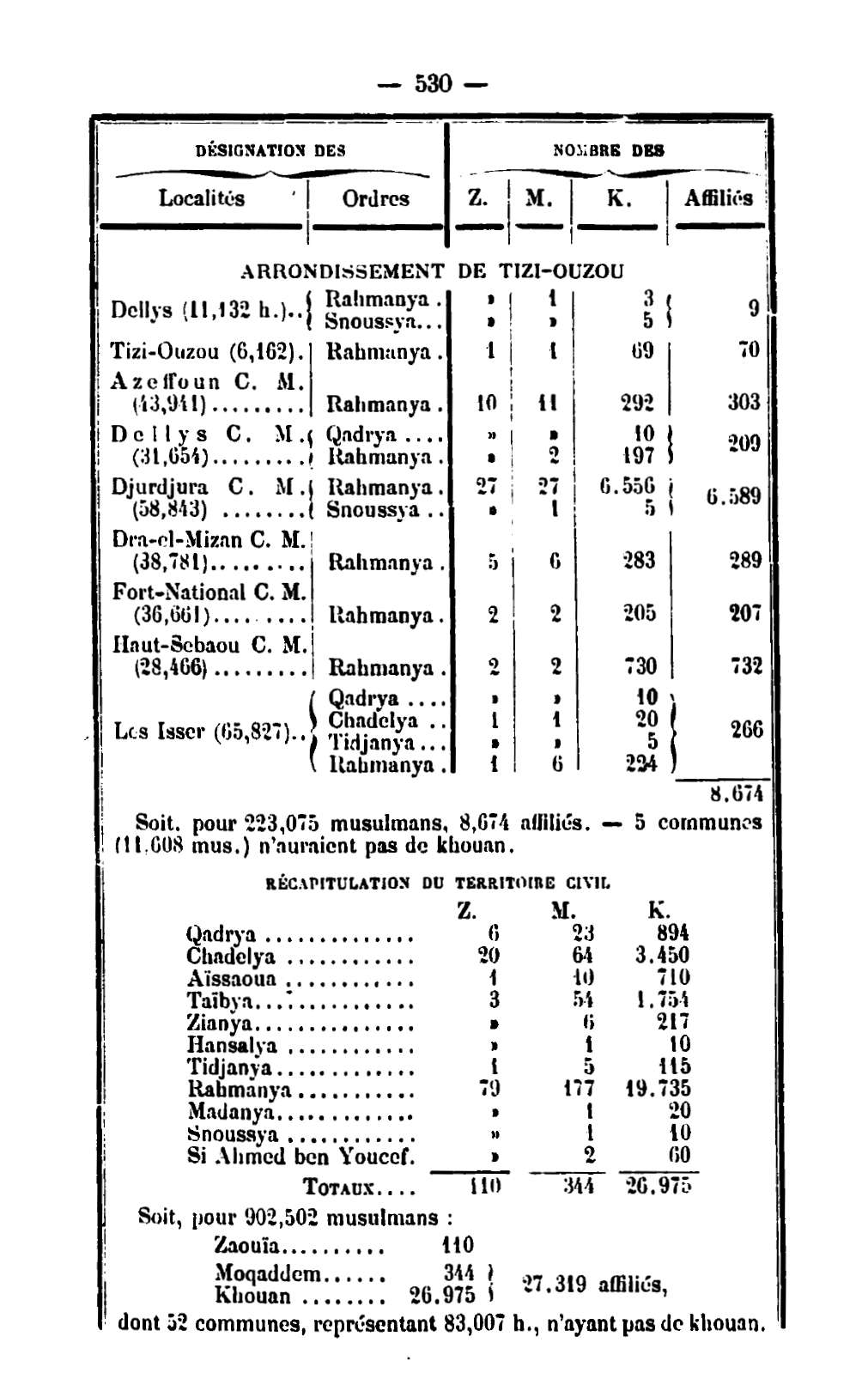 Statistics on the diffusion of the Tariqa Rahmaniya in Algeria around 1884